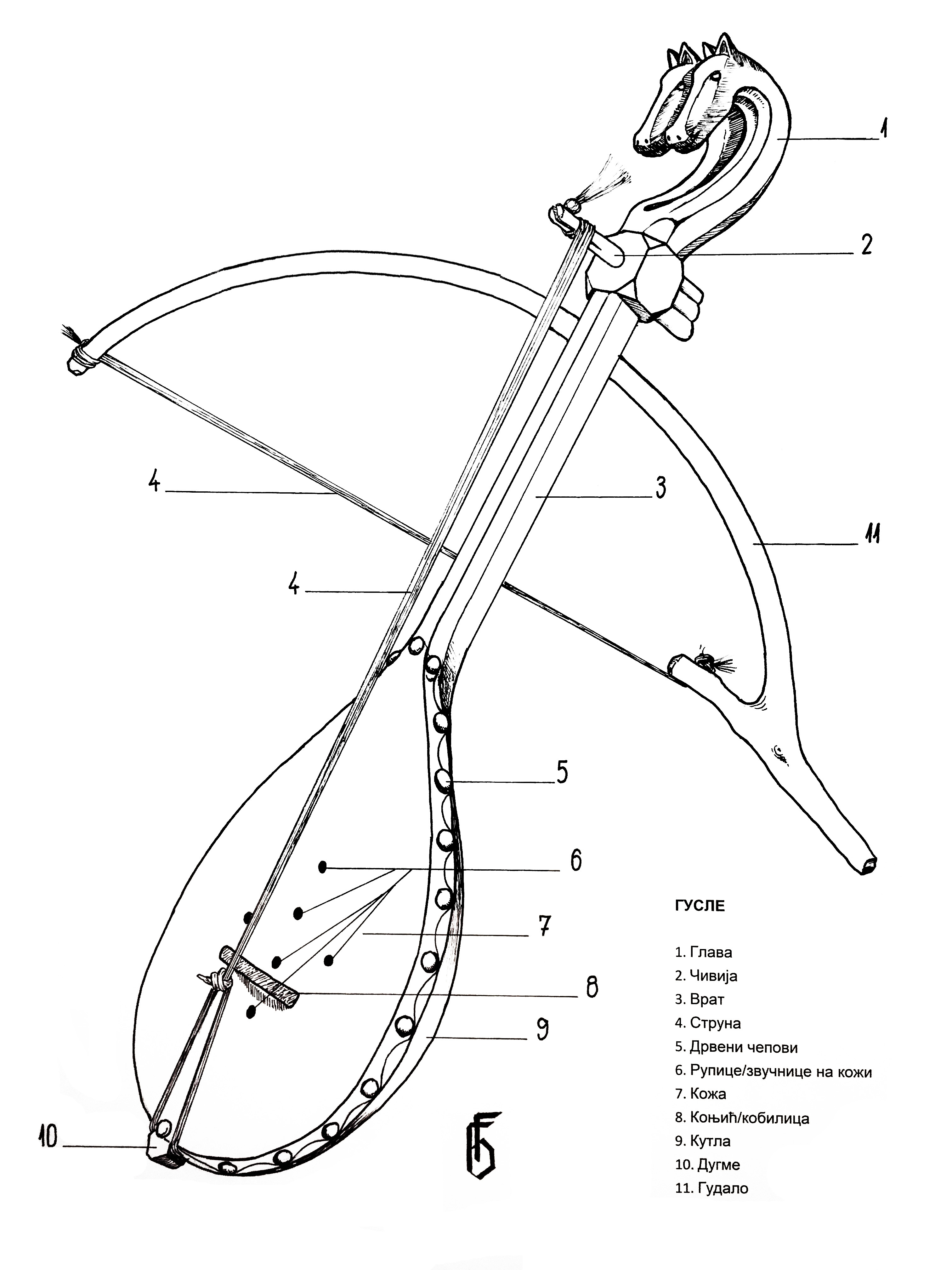 Parts of gusle (music instrument)